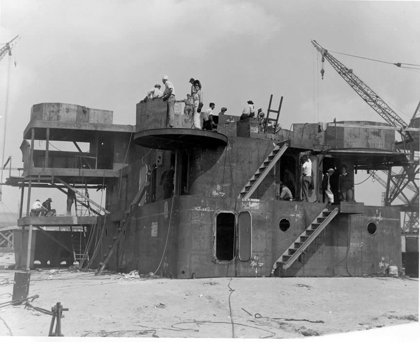 Liberty Ship assembly in Brunswick, Georgia.